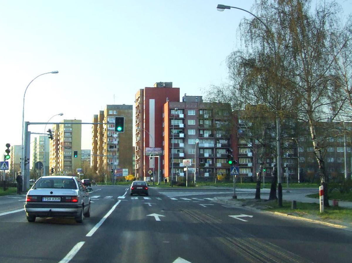 Streets of Stalowa Wola, Poland